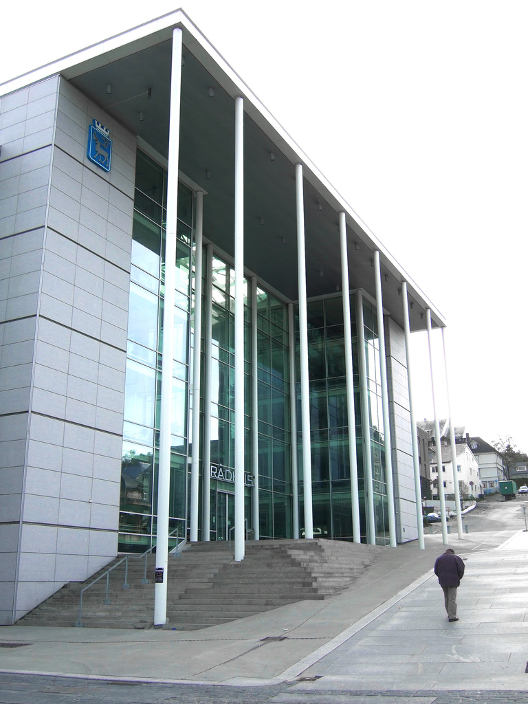 Tromsø rådhus, municipal building Tromsø, Norway